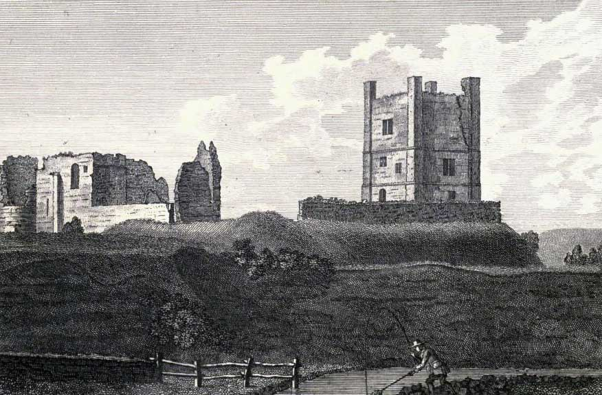 Engraving of Brough Castle, 1775